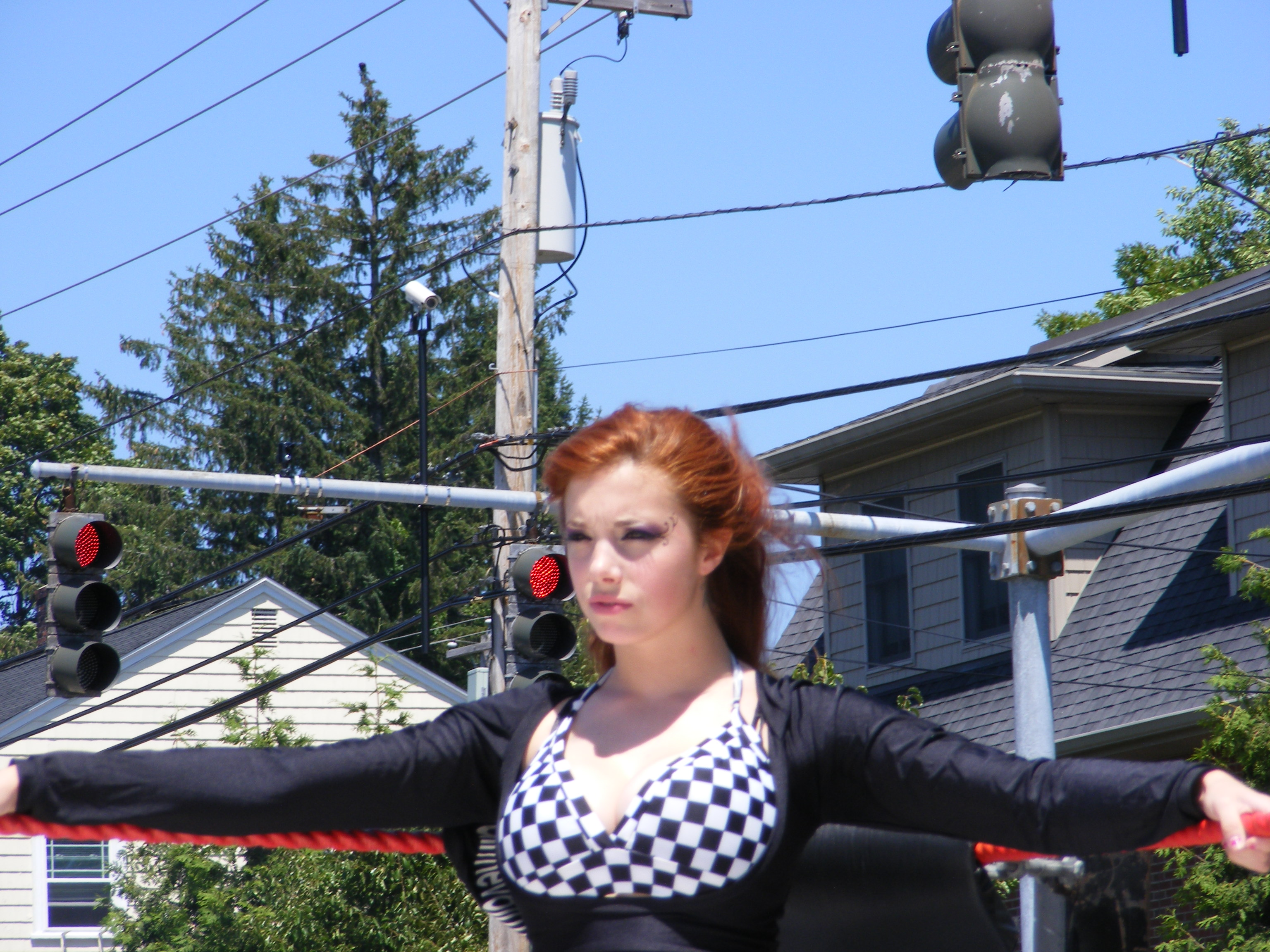 Taeler Hendrix at a HWF show in July 2011.